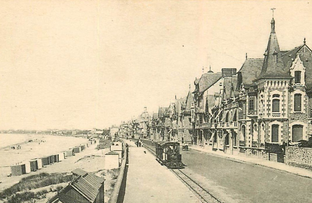 La Baule Les Villas vers le Pouliguen et la Plage